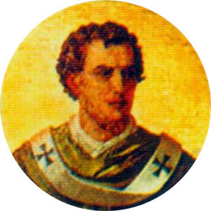 Portait of Pope Innocent III in the Basilica of Saint Paul Outside the Walls, Rome